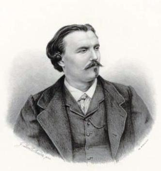 Portrait of French opera singer Jean Morère (1836-1887).